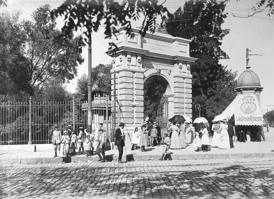 Main entrance to the Buenos Aires Zoo in Palermo.